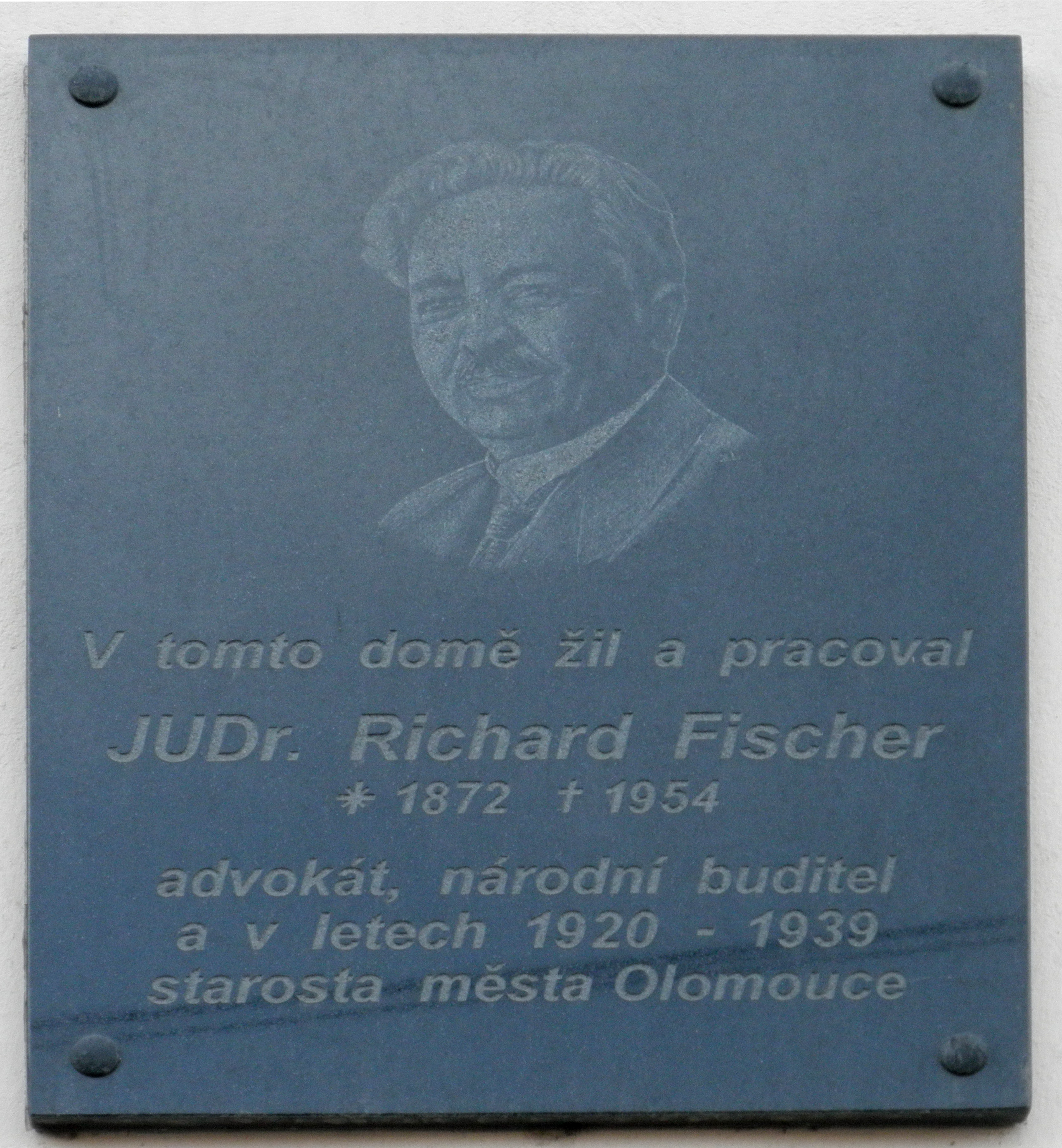 Photo of plaque to Richard Fischer in 18 třída Svobody street, Olomouc.